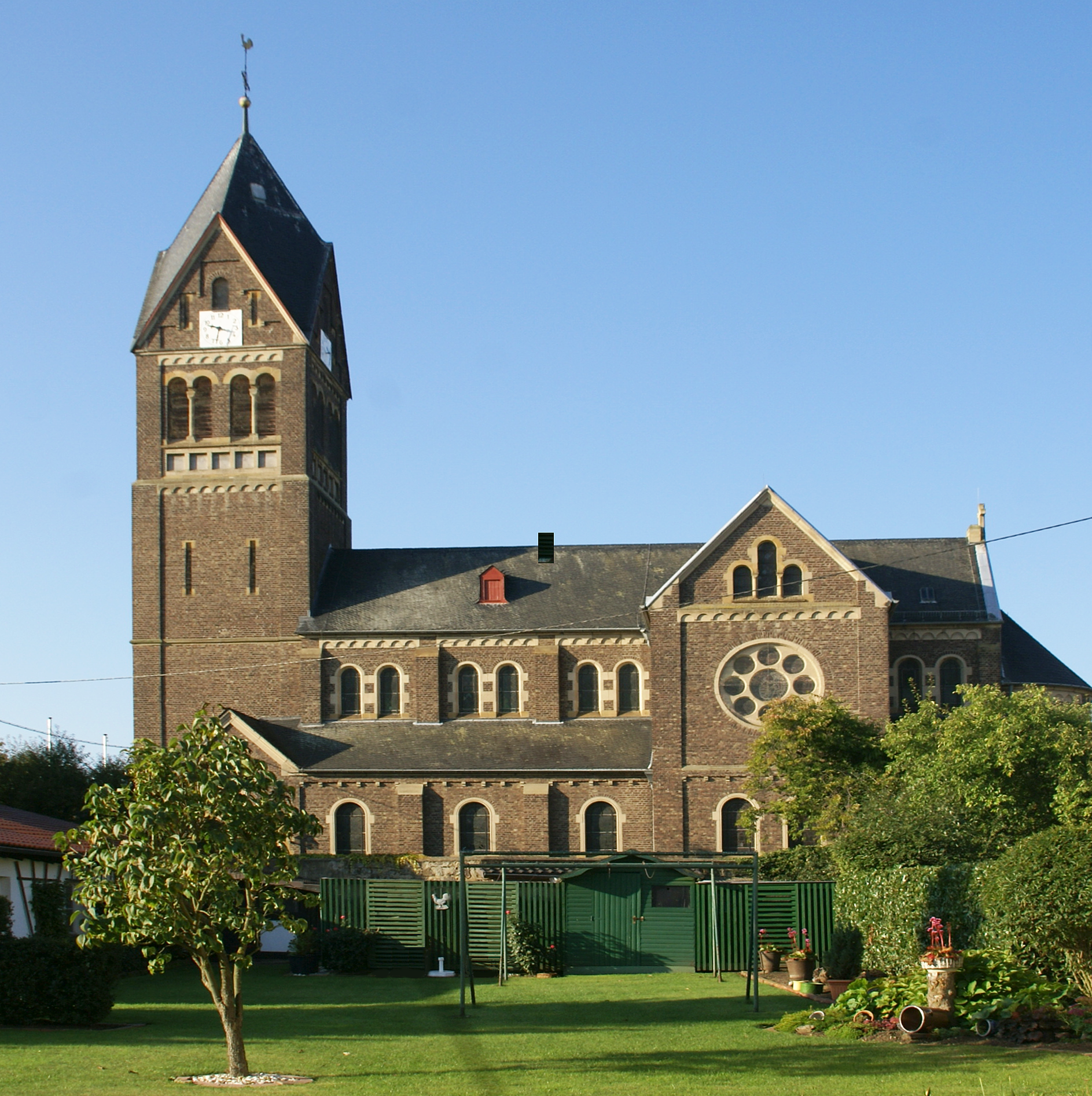 The parish church St. Martin in Ollheim